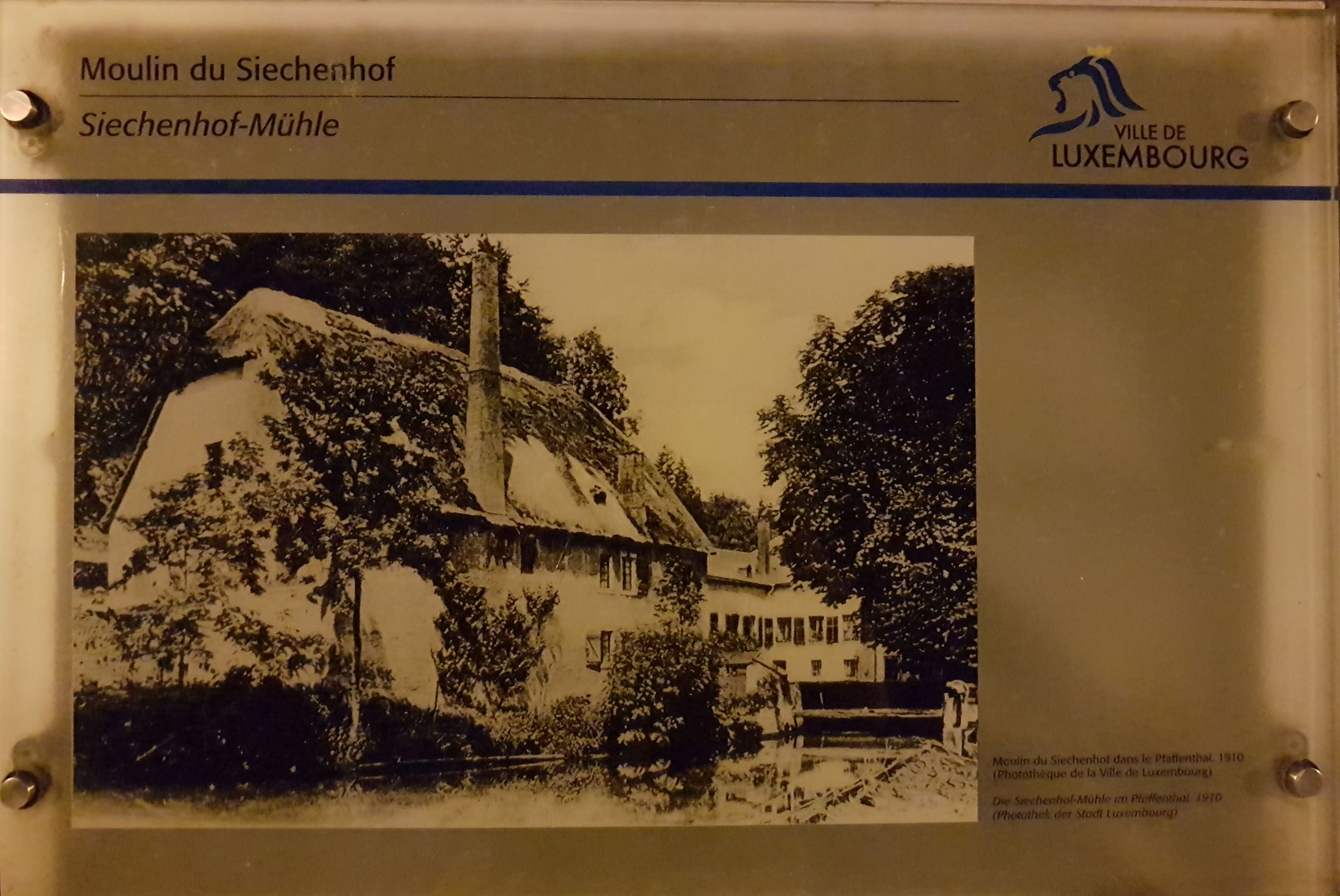 District Pfaffenthal in the city of Luxembourg in the Grand Duchy of Luxembourg. Information about the former Siechenhof mill.